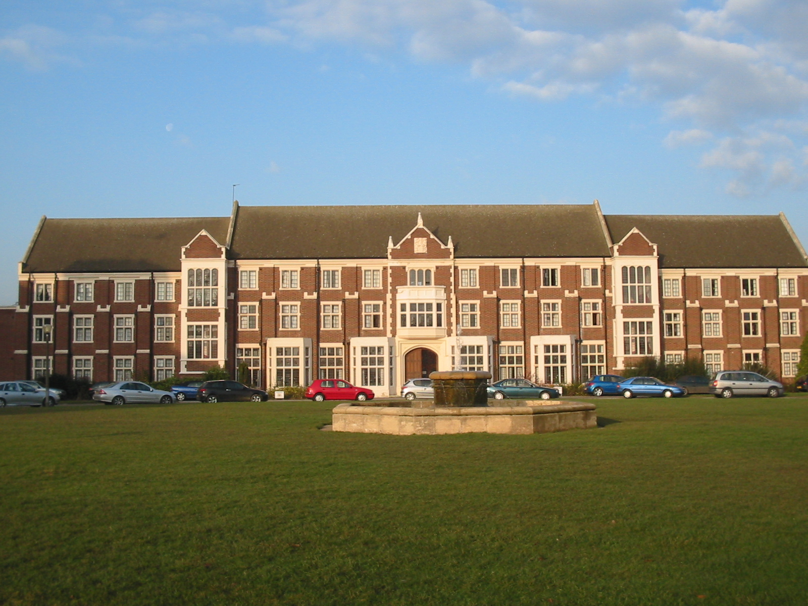 Author: hitesh sawlani (hitkaiser) Tags: loughborough university rutland hall